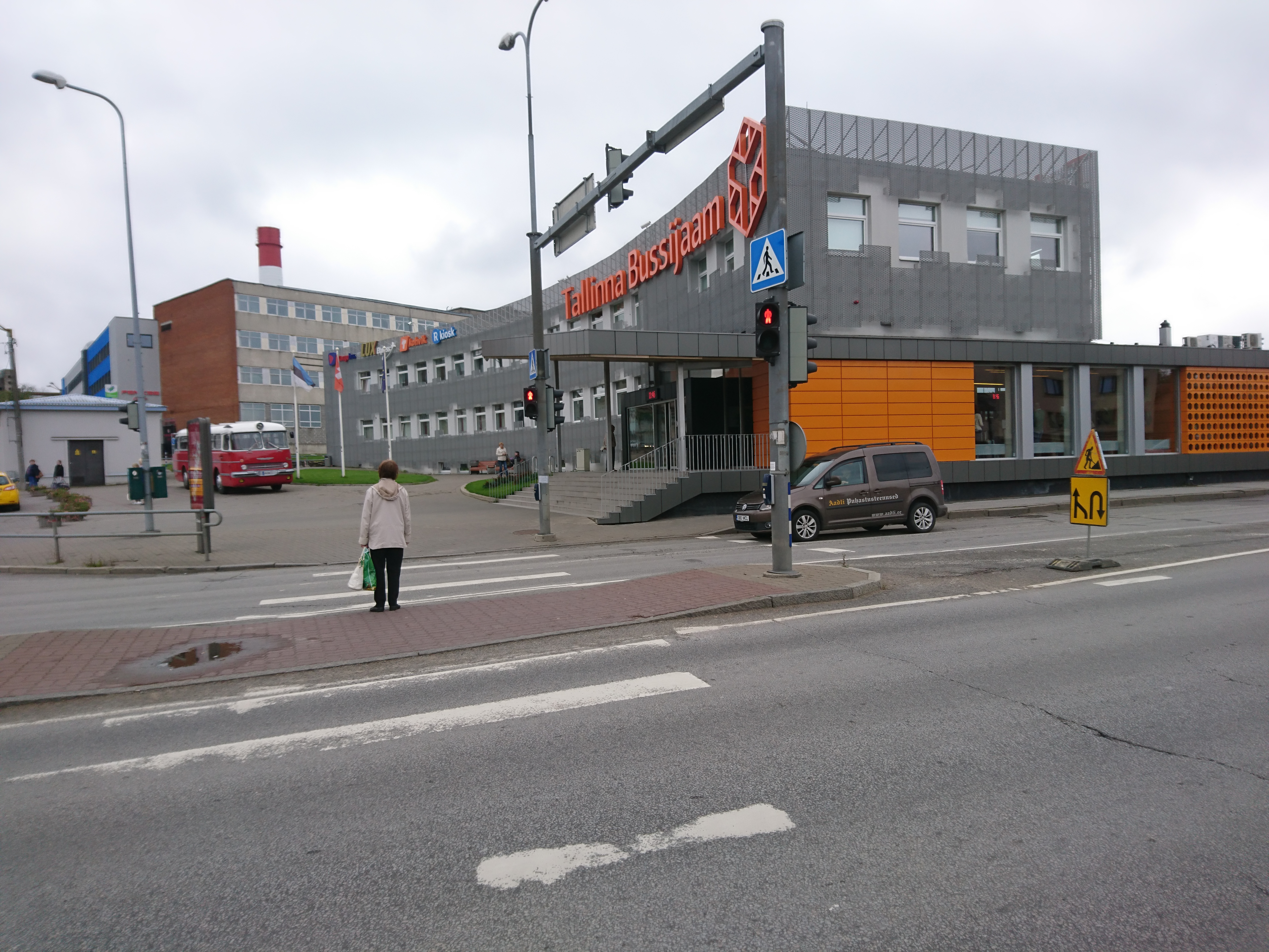 Tallinn Bus Station in 2016